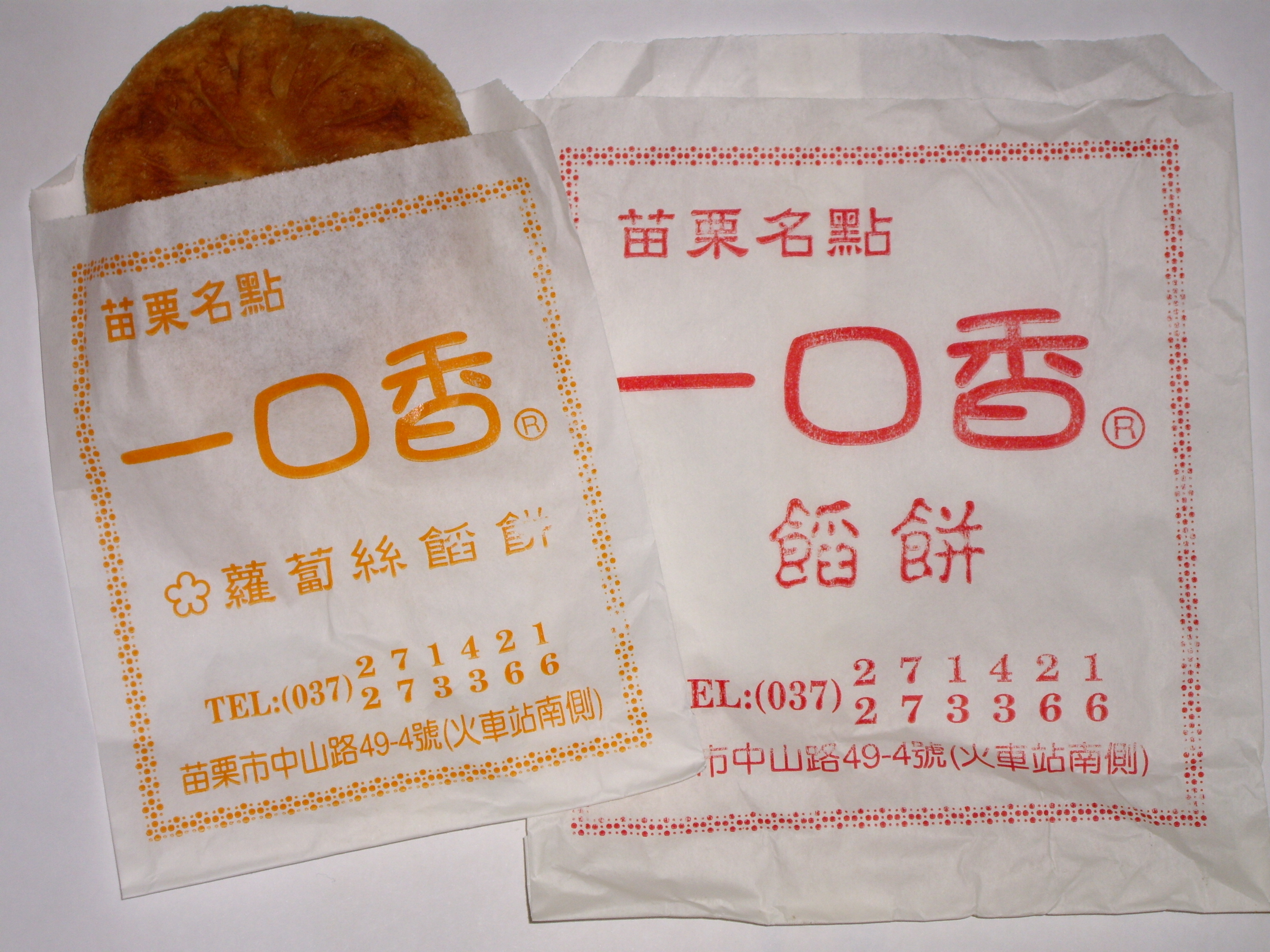 Original caption:-"Stuffed pastry from famed Miaoli establishment Yīkǒu xiāng ("A Mouthful of Flavour"), located on Zhongshan Road in Miaoli City, it is open for business in the afternoons." From the wrapper the filling of this pastry is shredded giant white radish (daikon).